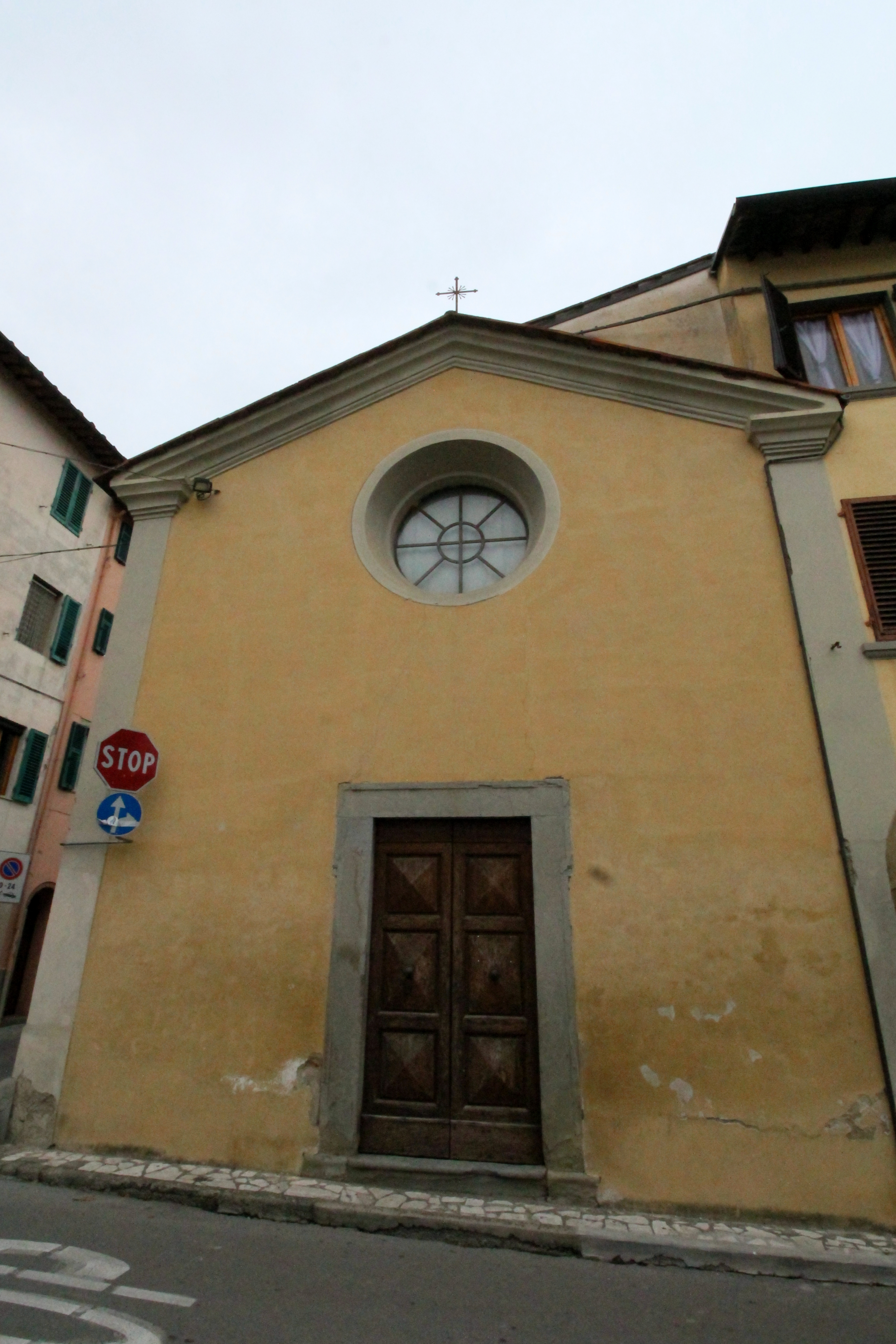 Church San Biagio ai Mori, walled center of Terranuova Bracciolini, Province of Arezzo, Tuscany, Italy